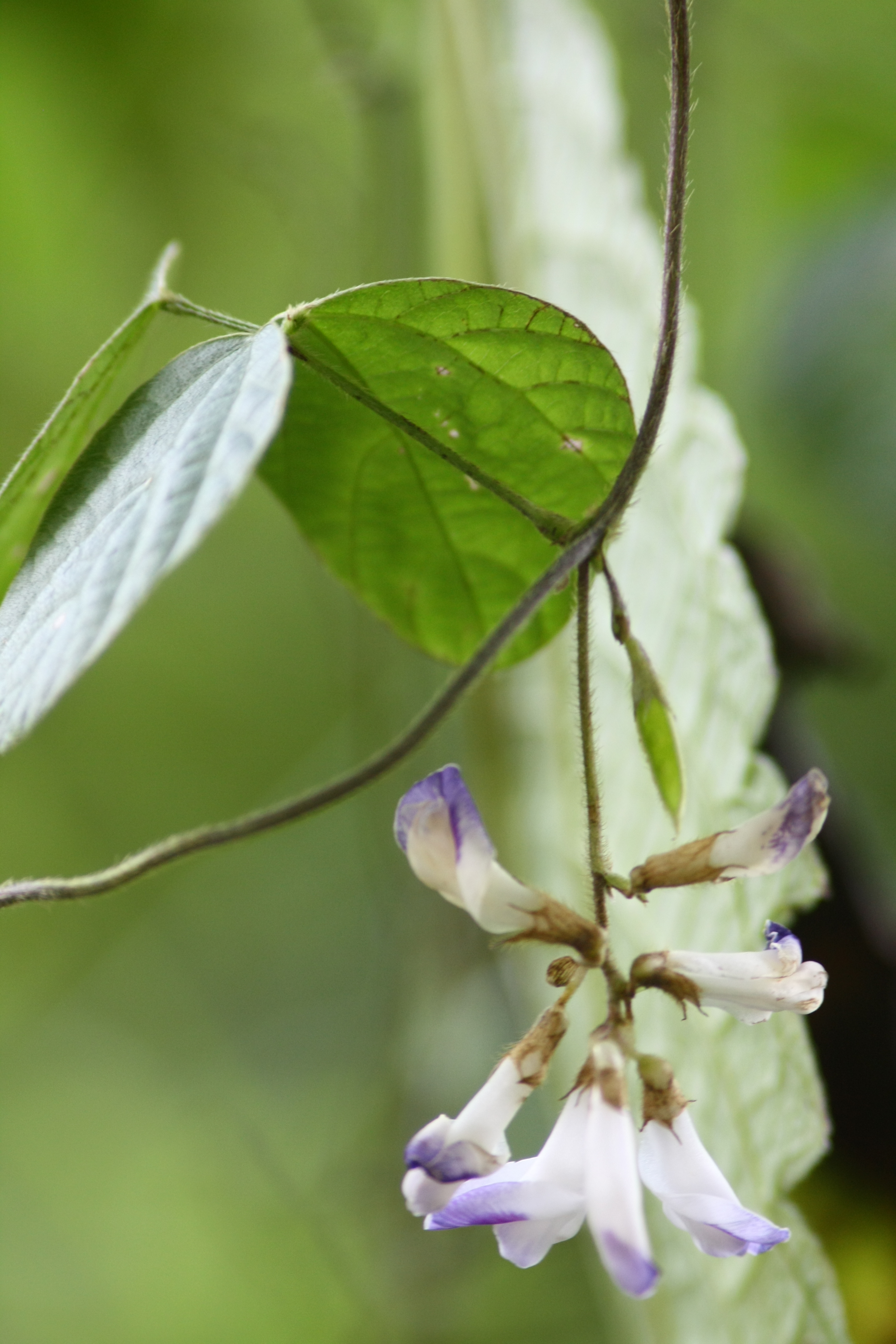 Amphicarpaea bracteata subsp. edgeworthii